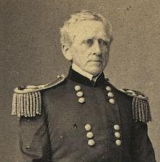 Major General John Adams Dix "Shoot the first man that dares pull that flag down / E. & H.T. Anthony (Firm), 501 Broadway, N.Y.